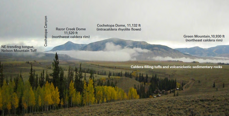 Panoramic view of Cochetopa Dome (sequence of rhyolitic lava flows within caldera) and north walls of Cochetopa Park caldera, viewed from south. Cloud-obscured northwest caldera rim, at left of image, is Sawtooth Mountain (12,147 ft); northeast caldera rim is marked by Razor Creek Dome and Green Mountain on right side. Light-colored eroding outcrops in foreground are weakly indurated tuff and volcaniclastic sedimentary fill of the caldera basin.